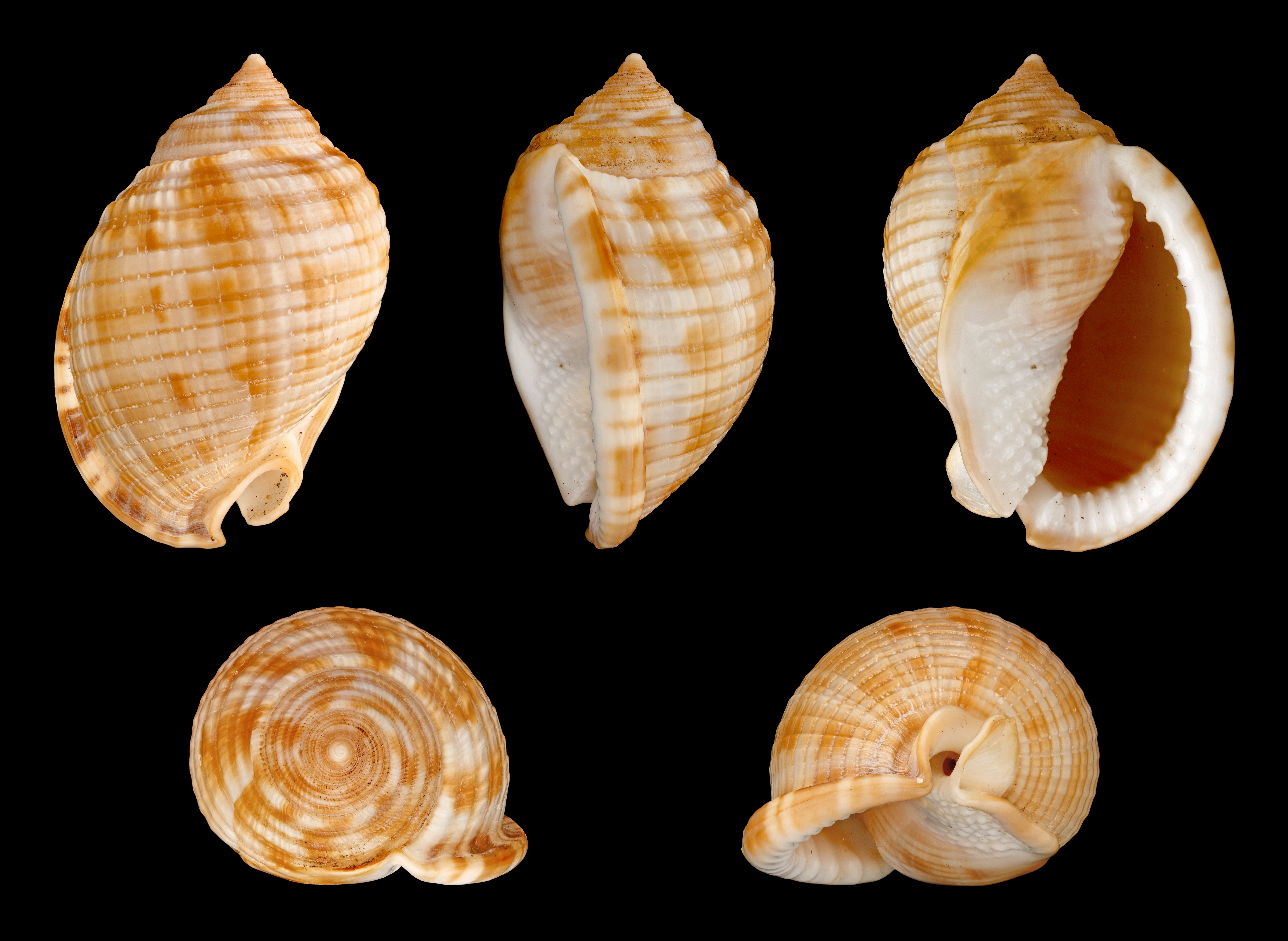 Scotch Bonnet; Length 5.1 cm; Originating from the Caribbean; Shell of own collection, therefore not geocoded. Dorsal, lateral (right side), ventral, back, and front view.